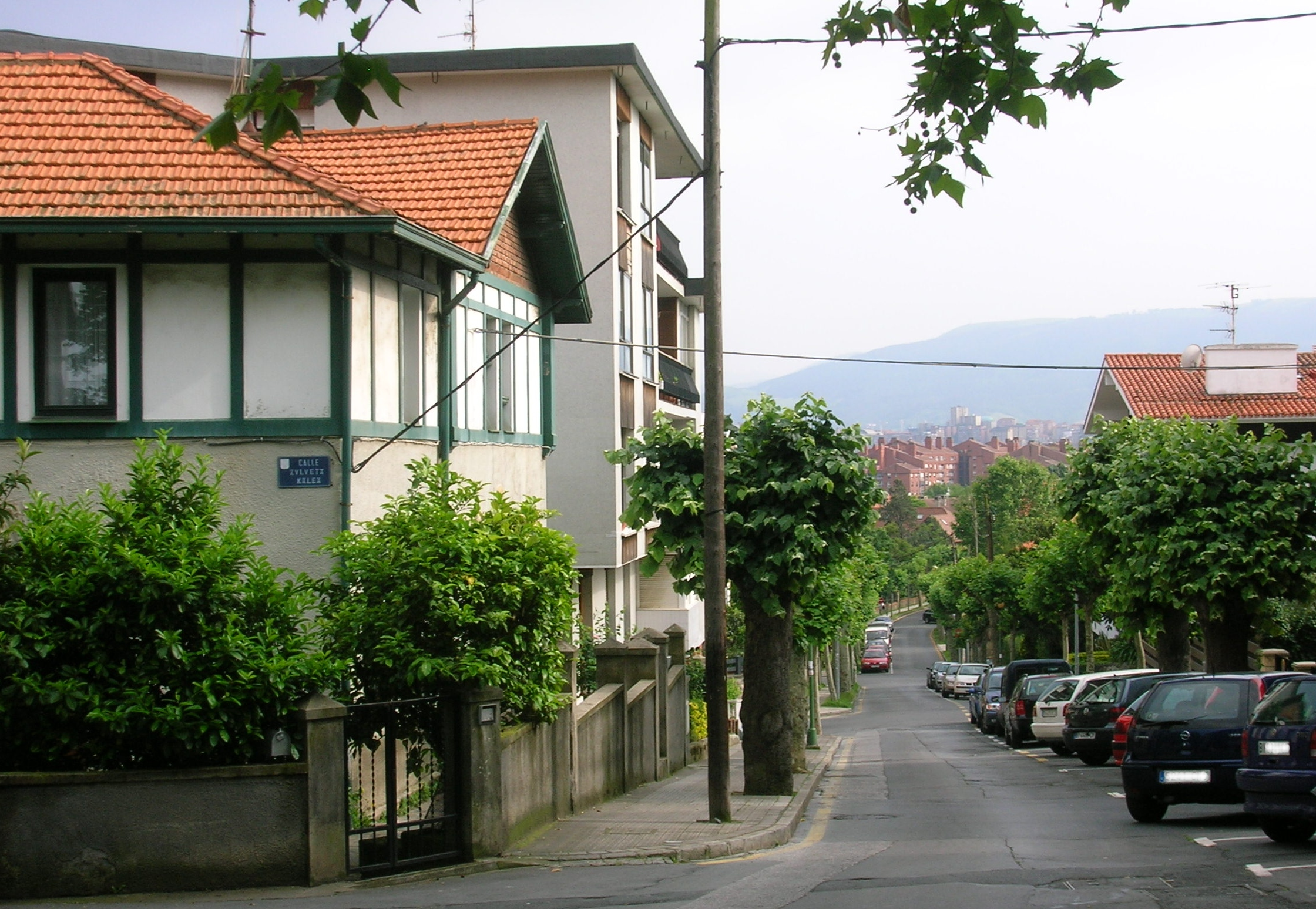 Zulueta Street corner at Neguri, Getxo, Biscay